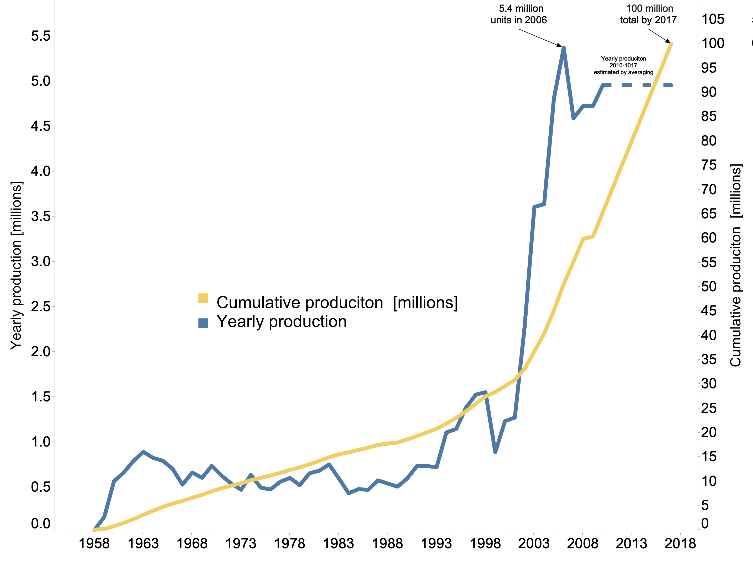 Honda Super Cub production 1958 to April 2017. Blue line shows units produced in each year from 1958 through 2009. Years from 2009 through 2017 are shown in blue dotted line, representing average calculated by dividing the difference between cumulative total in 2017 and 2009 equally between all years. This estimate therefore assumes a constant rate of production after 2009 to arrive at 100 million in 2017. Yellow line shows cumulative total production data from Honda (not calculated based on annual production data). Sources: Created with Tableau